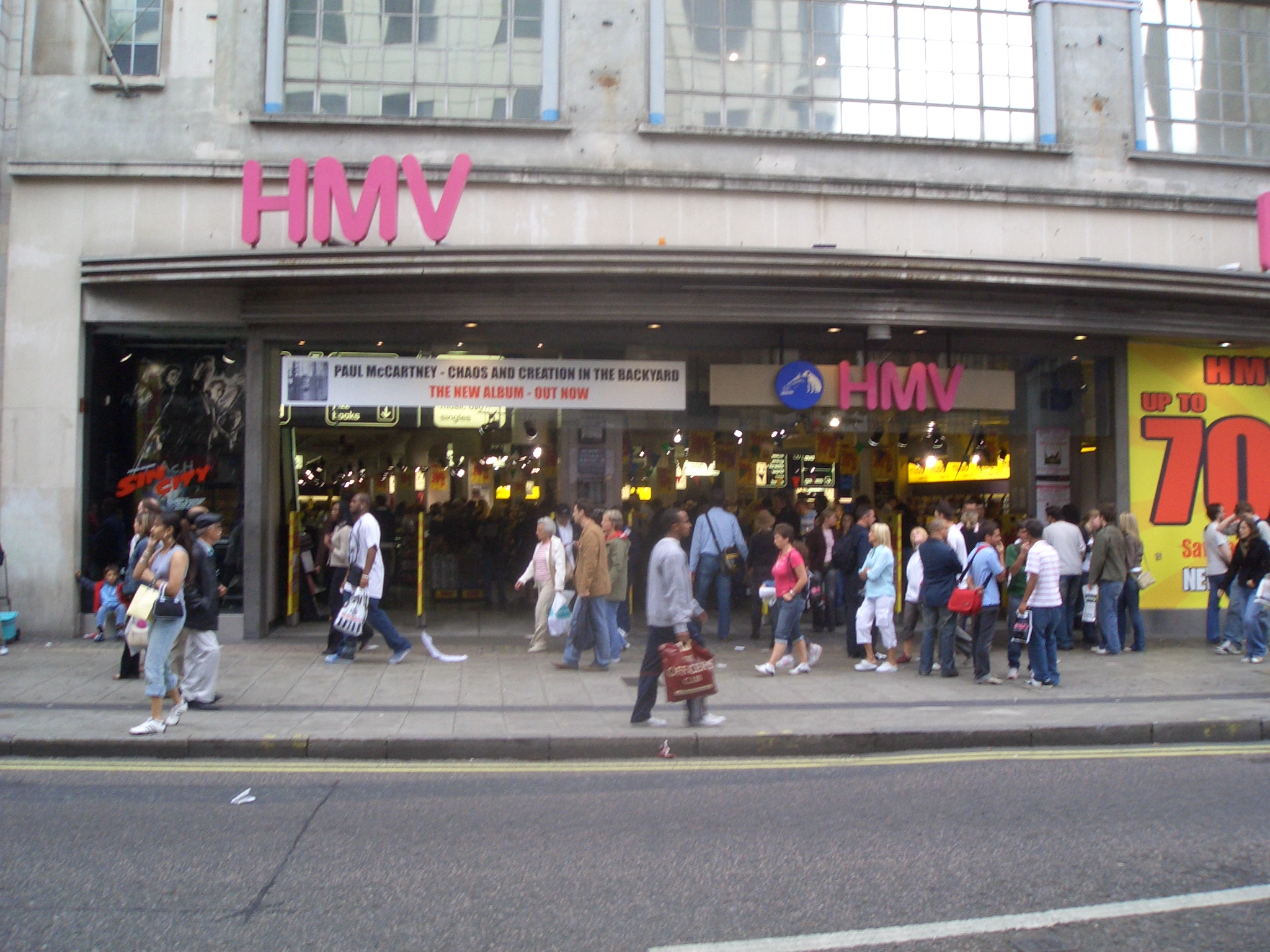 Photo of HMV, Oxford Street taken 24 September 2005 by User:Edward.